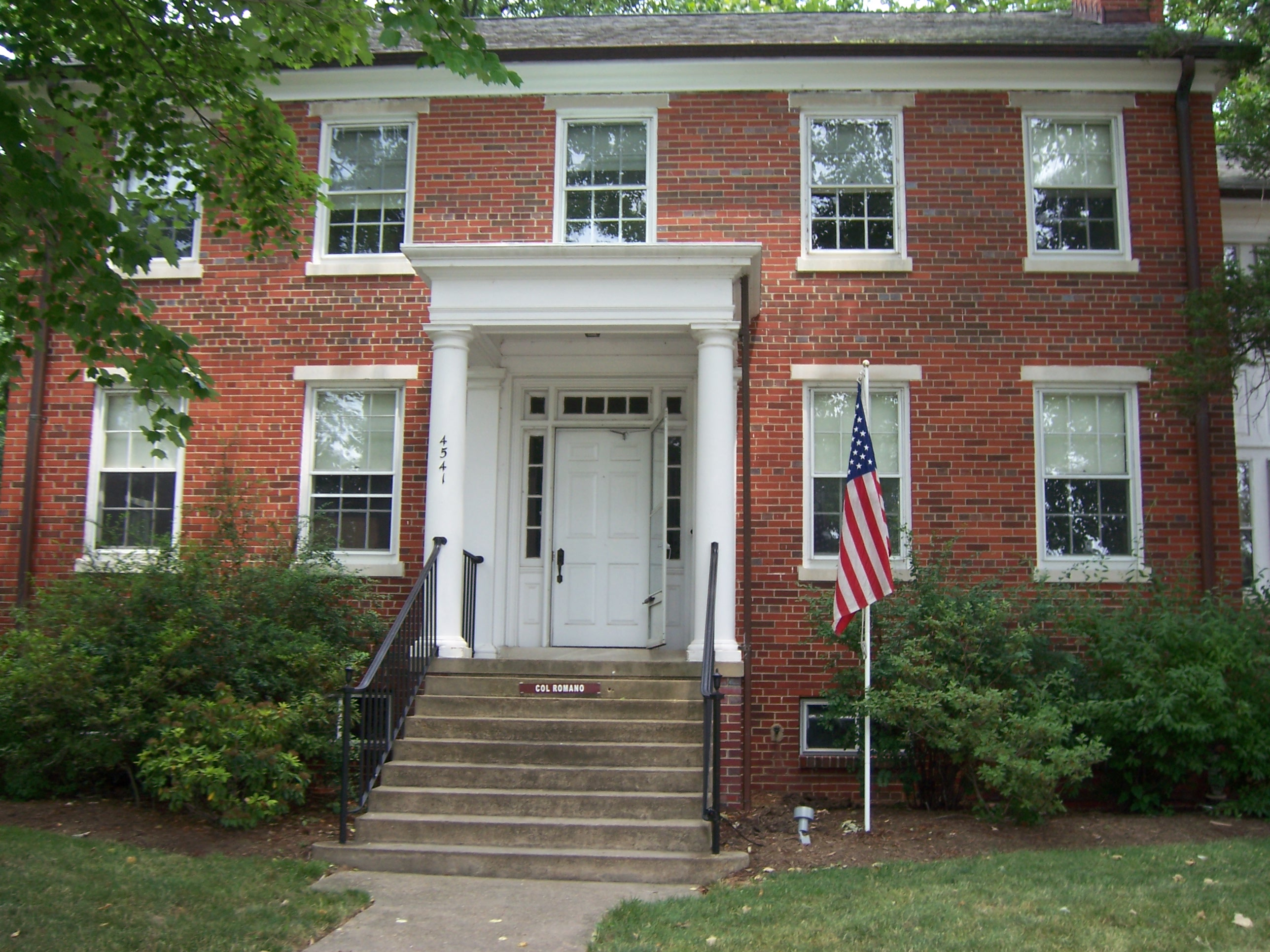 Taken by me (June 2007) Attribution required.